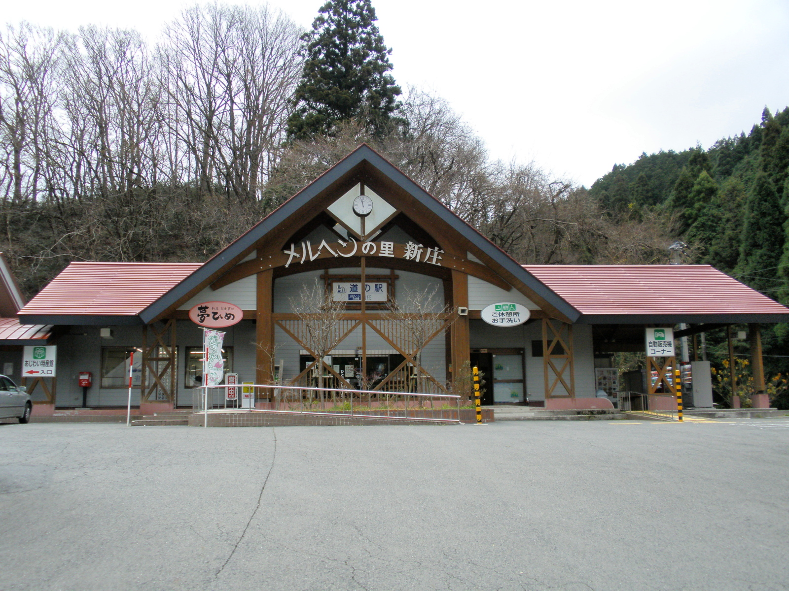 Roadside Station "Marchen No Sato Shinjo" (The village of marchen Shinjō), Shinjō, Okayama.